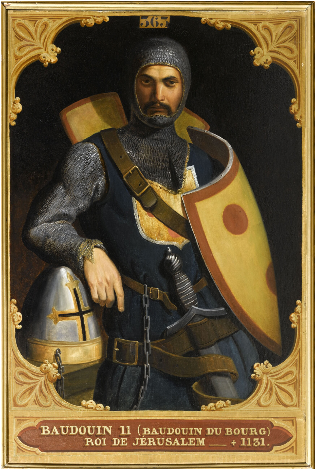 Baldwin of Bourcq, count of Edessa and king of Jerusalem.